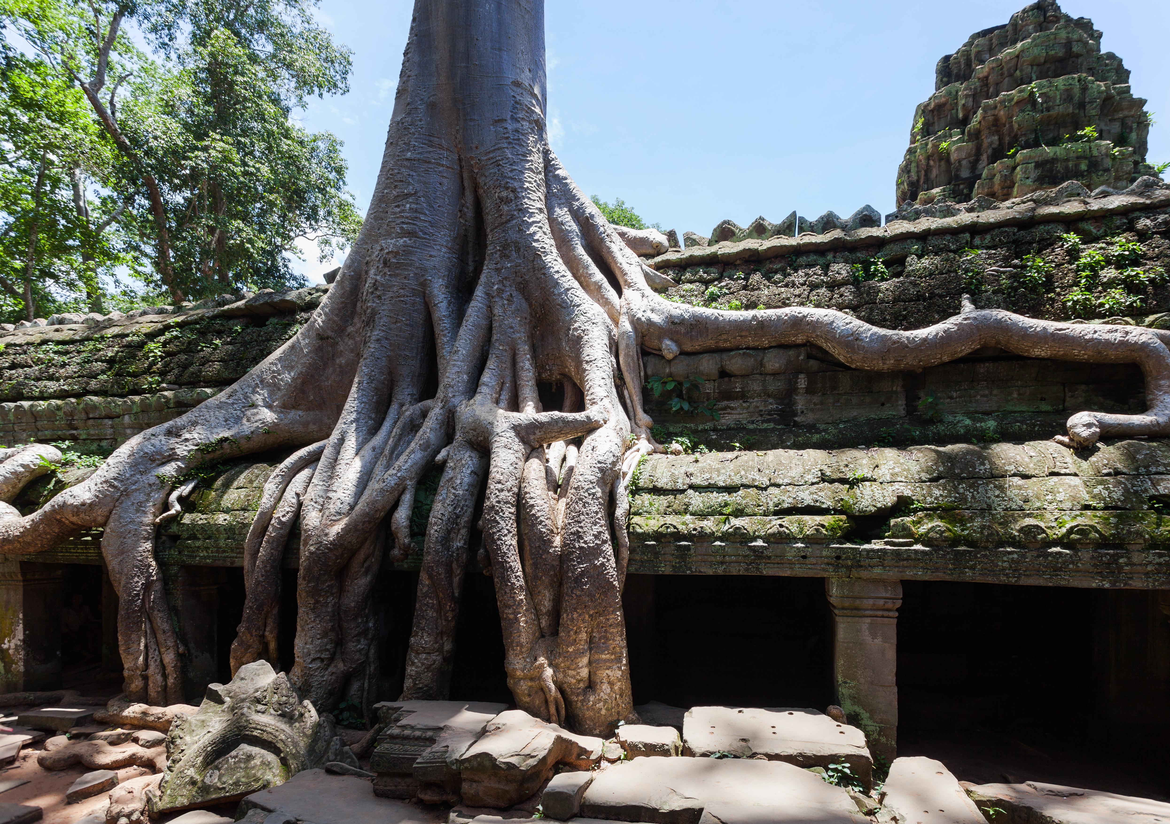 Ta Phrom, Angkor, Cambodia